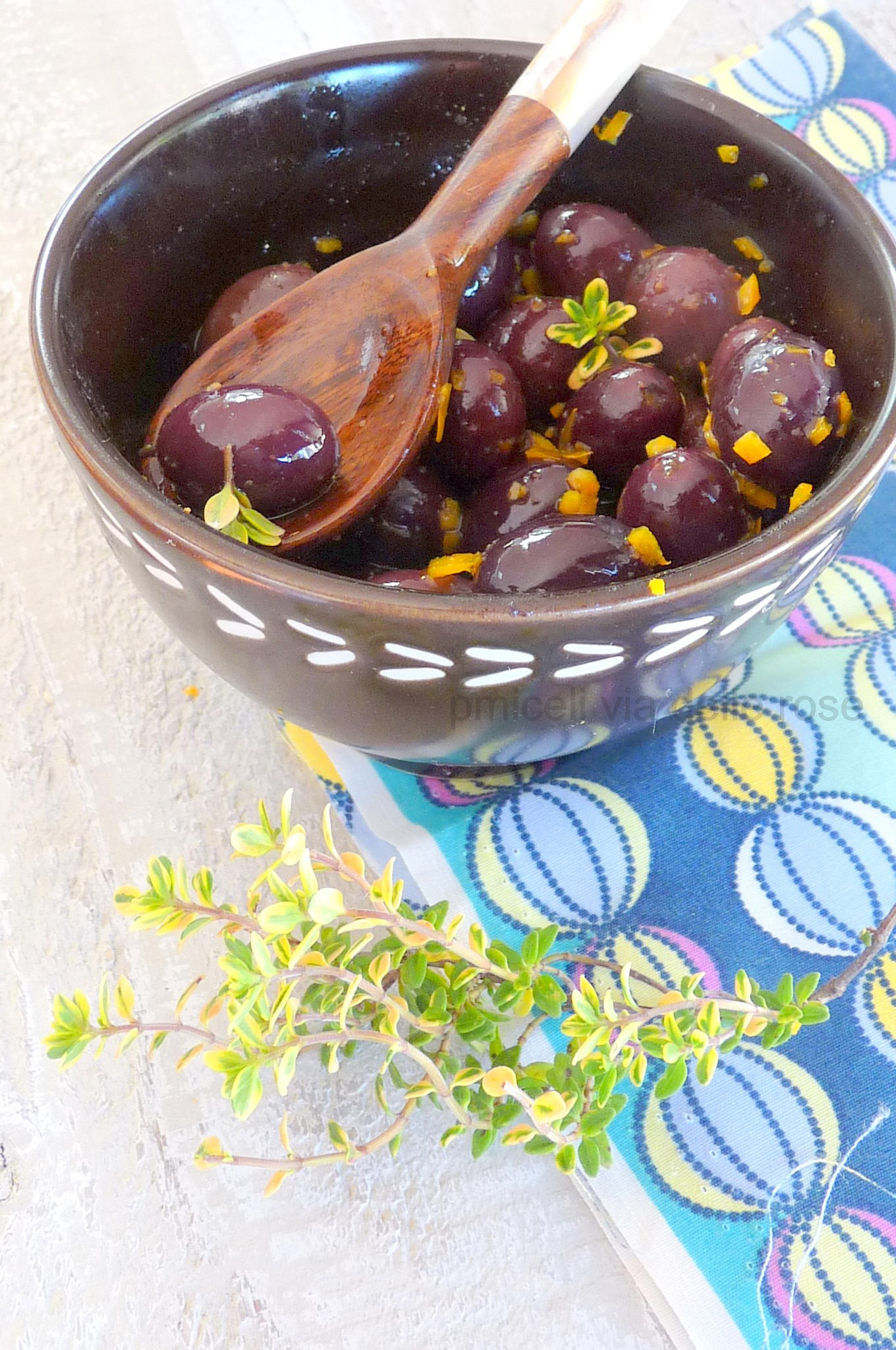 Oliva di Gaeta, Lazio - Italy